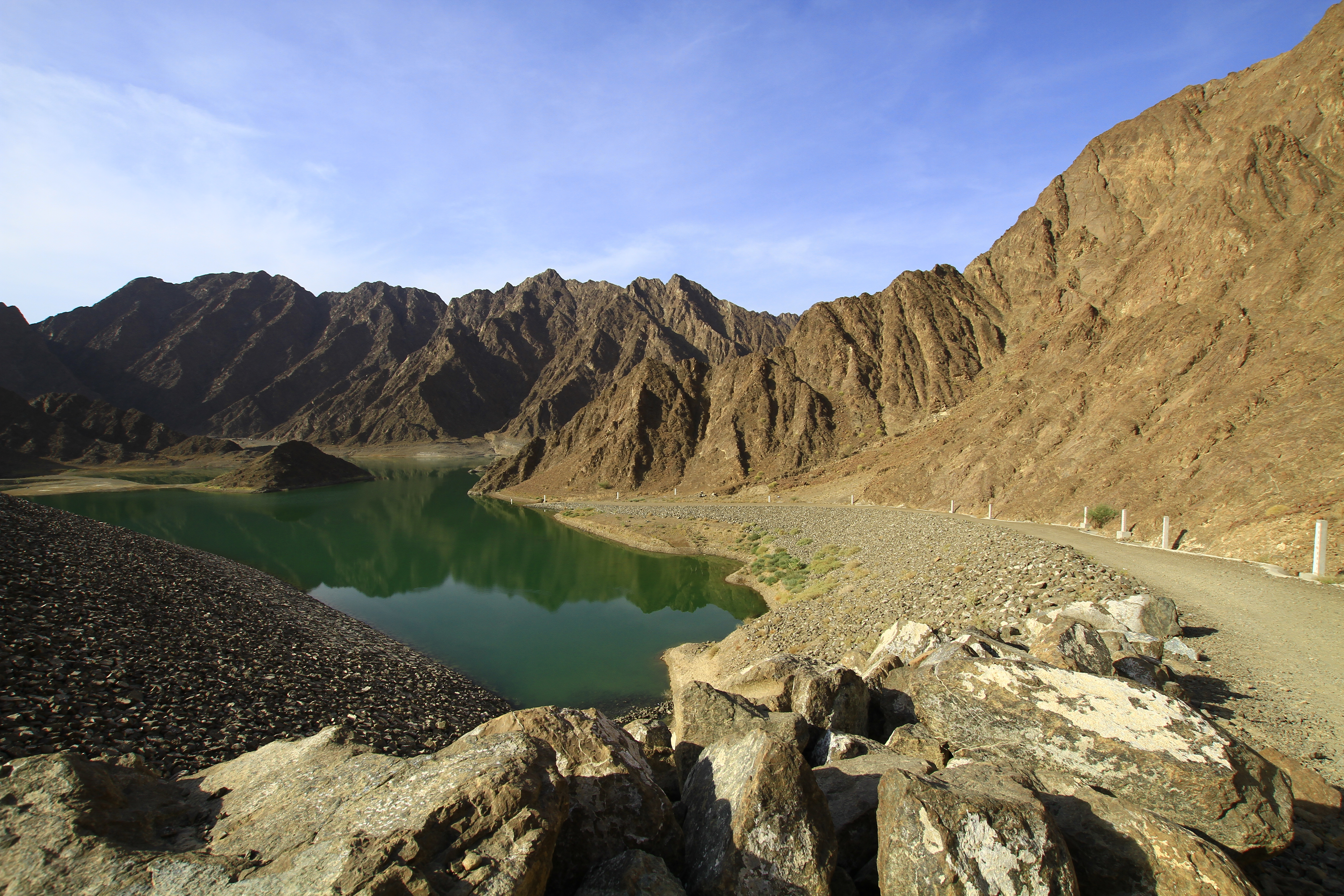 Hatta Dam view